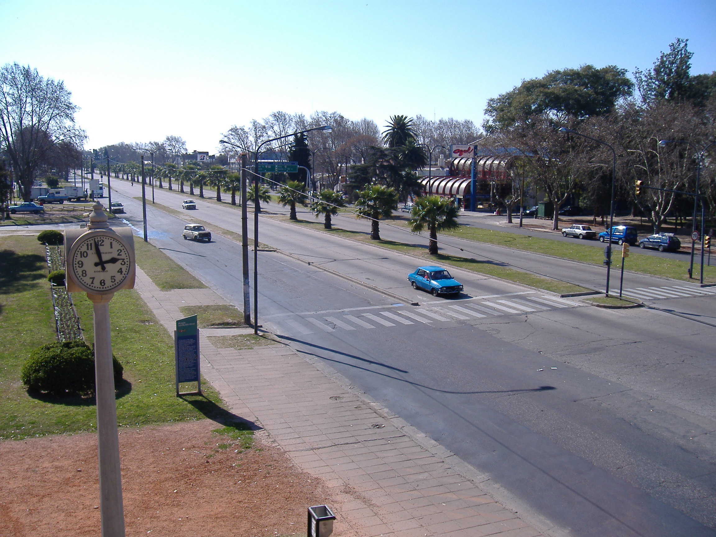 Rondeau Boulevard, an avenue in the north of Rosario, Argentina. Facing north from a pedestrian bridge parallel to Puccio Avenue.